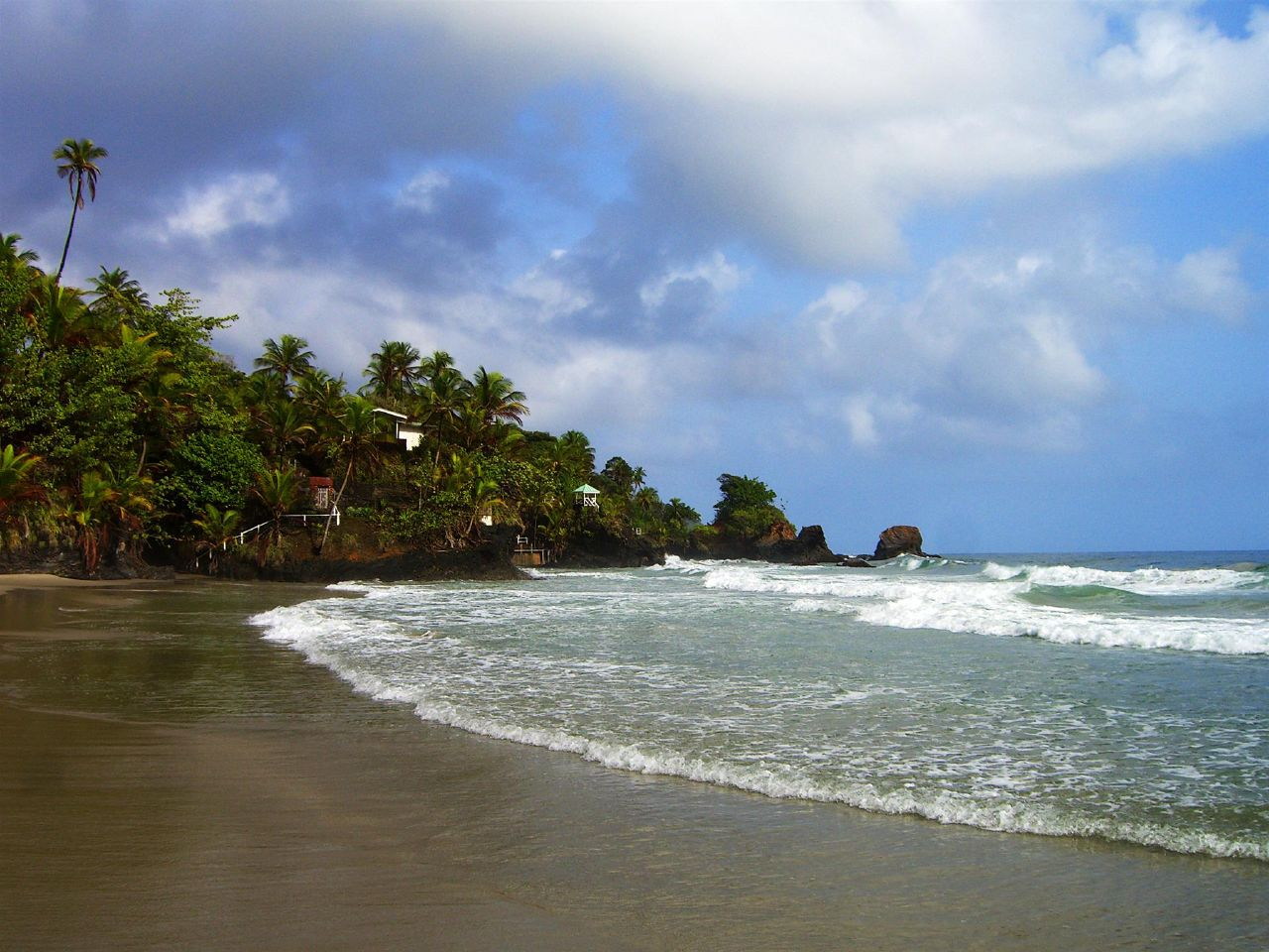 Blanchisseuse Beach Trinidad.